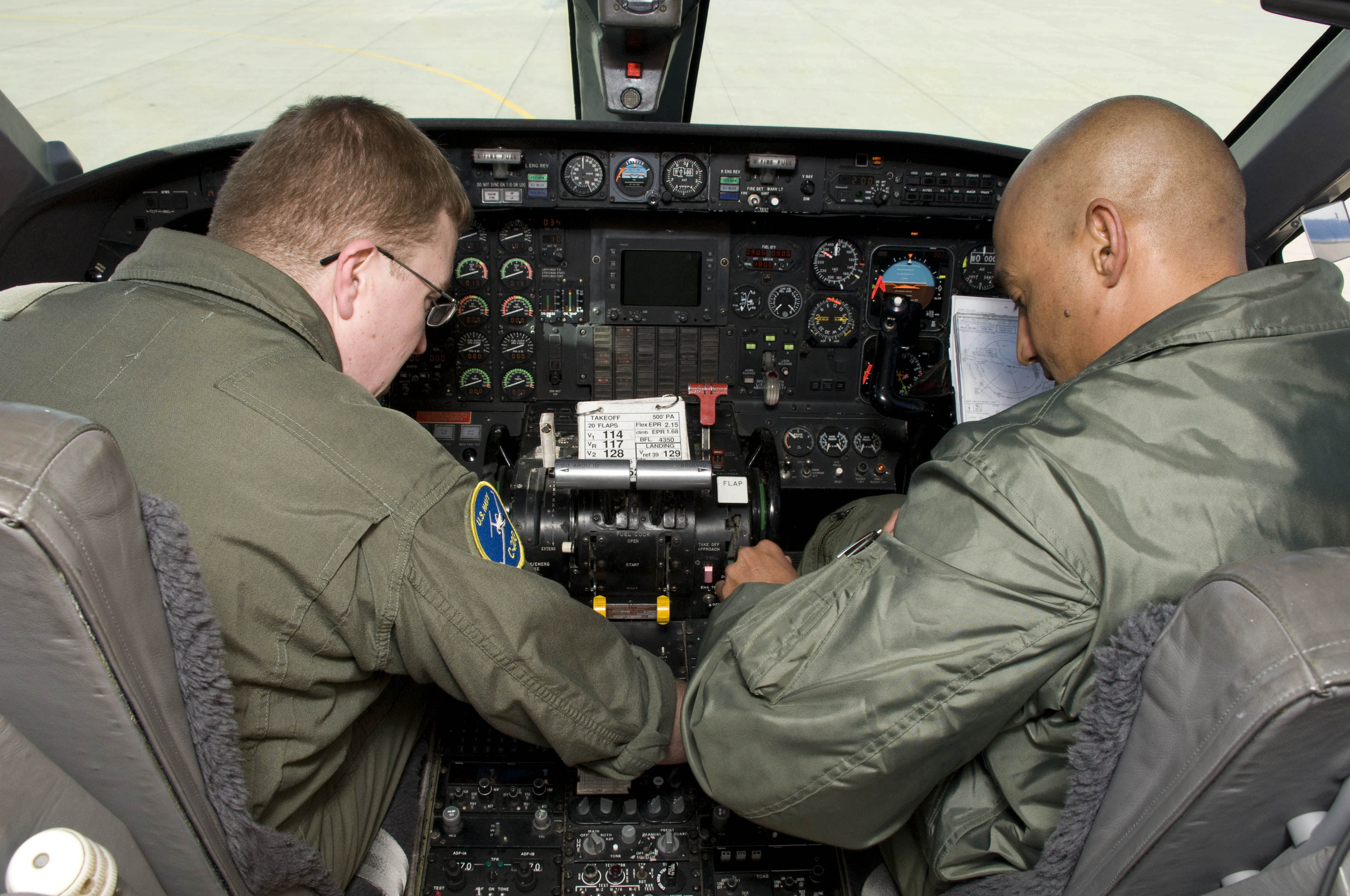 SIGONELLA, Sicily (Feb. 19, 2009) Naval Aircrewmen 1st Class Troy Rudisill and David Williams, assigned to Executive Transport Detachment "Catbird" at Naval Air Station Sigonella, conduct pre-flight checks in the cockpit of a Gulfstream C-20A/G III. Naval Air Station Sigonella provides logistical support for Commander, 6th Fleet and NATO forces in the Mediterranean area. (U.S. Navy photo by Mass Communication Specialist 3rd Class Jonathan P. Idle/Released)